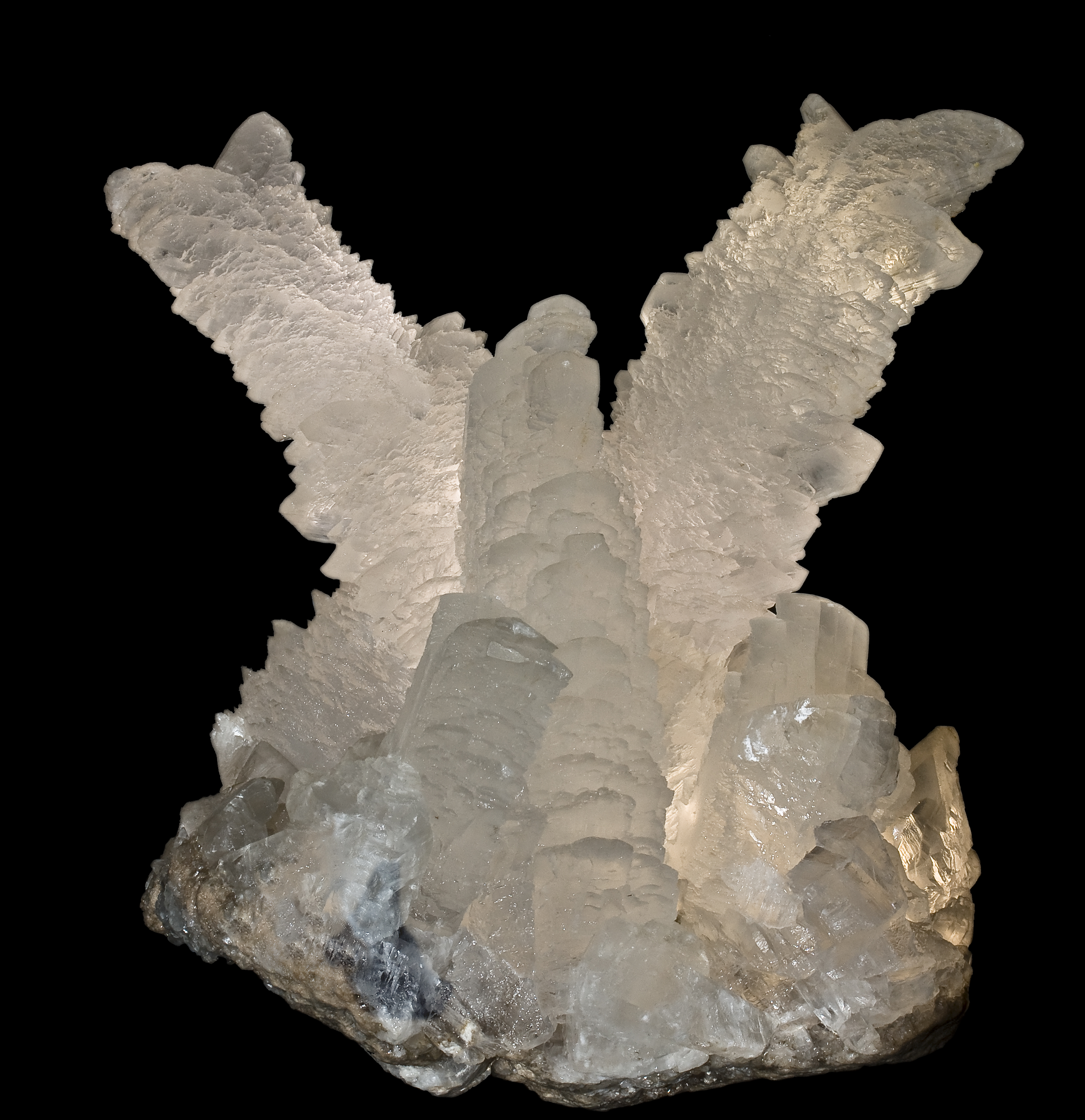 Gypsum Locality : Naica, Mun. de Saucillo, Chihuahua, Mexico Size : 44x30cm